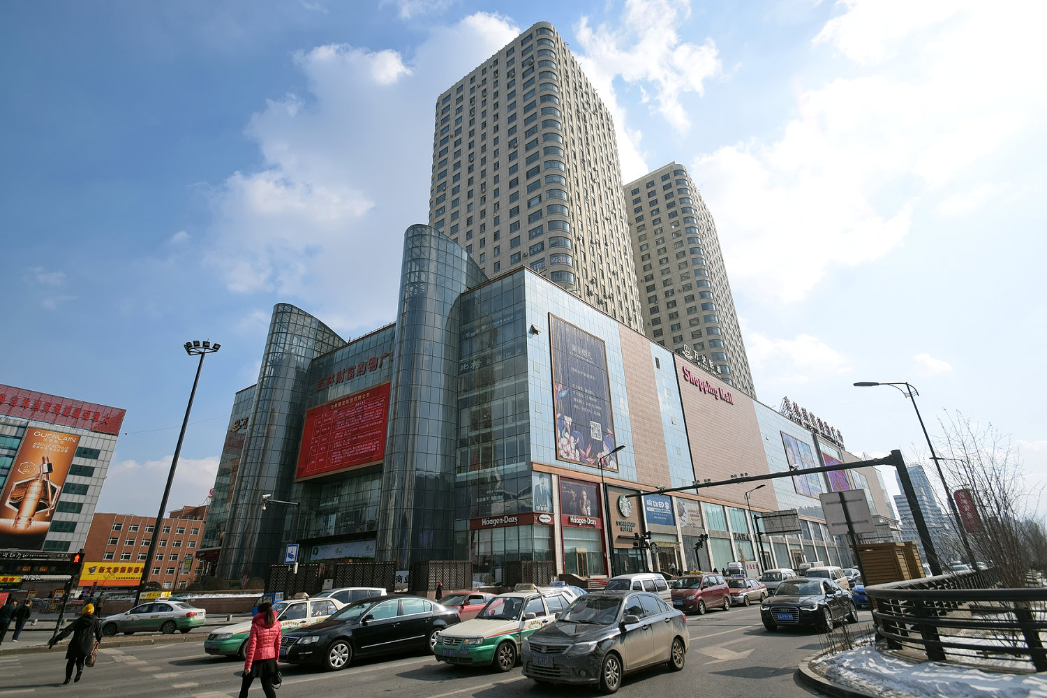 Jilin Fortune Shopping Mall, Jilin City